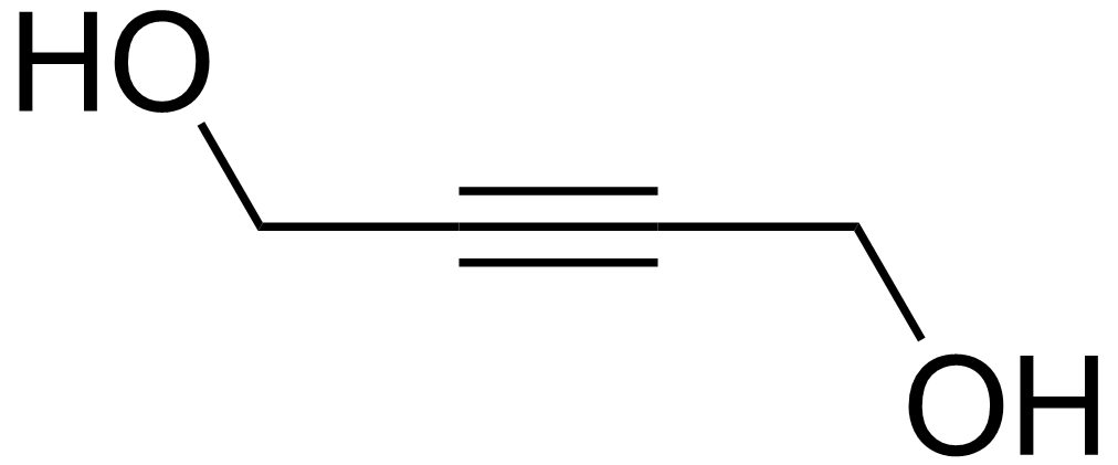 Chemical structure of but-2-yne-1,4-diol